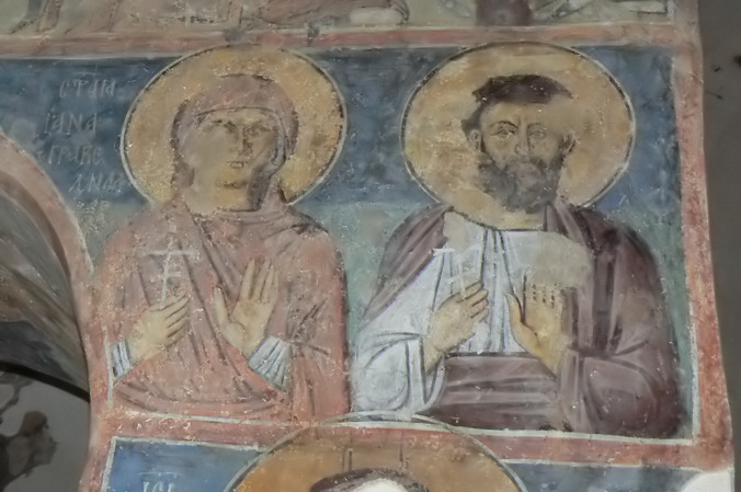 Frescoes of St Anne and St Joachim in the church in Zemen monastery, Bulgaria